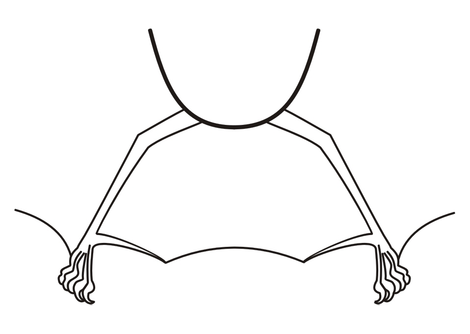 According to Husson, 1962 shows interfemoral membranes, calcar, feet and tail in bats of genus Vampyrum